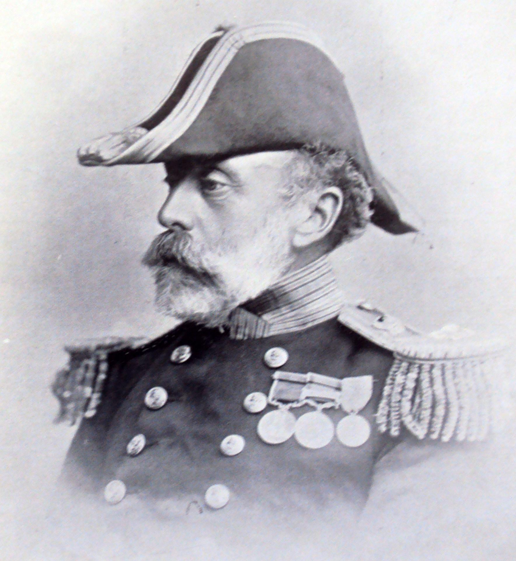 Henry Craven St John, taken from the Navy & Army Illustrated April 1898, Volume VI, page 121